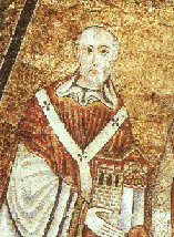 Excerpt from a mosaic in the church Santa Maria in Trastevere in Rome. Pope Innocent II stands at the far left, beside Sts. Lawrence and Calixtus. The Pope is depicted as the founder of the new building of Santa Maria, holding it in his arms. the mosaic is from the building of the church by Innocent II, thus is 12th century